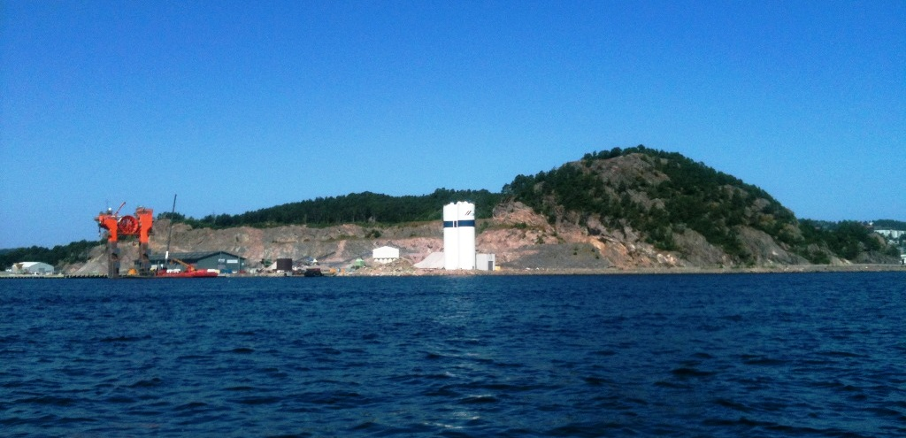 Vige harbour (Vige havn) is a part of the Port of Kristiansand, Vest-Agder county, Norway